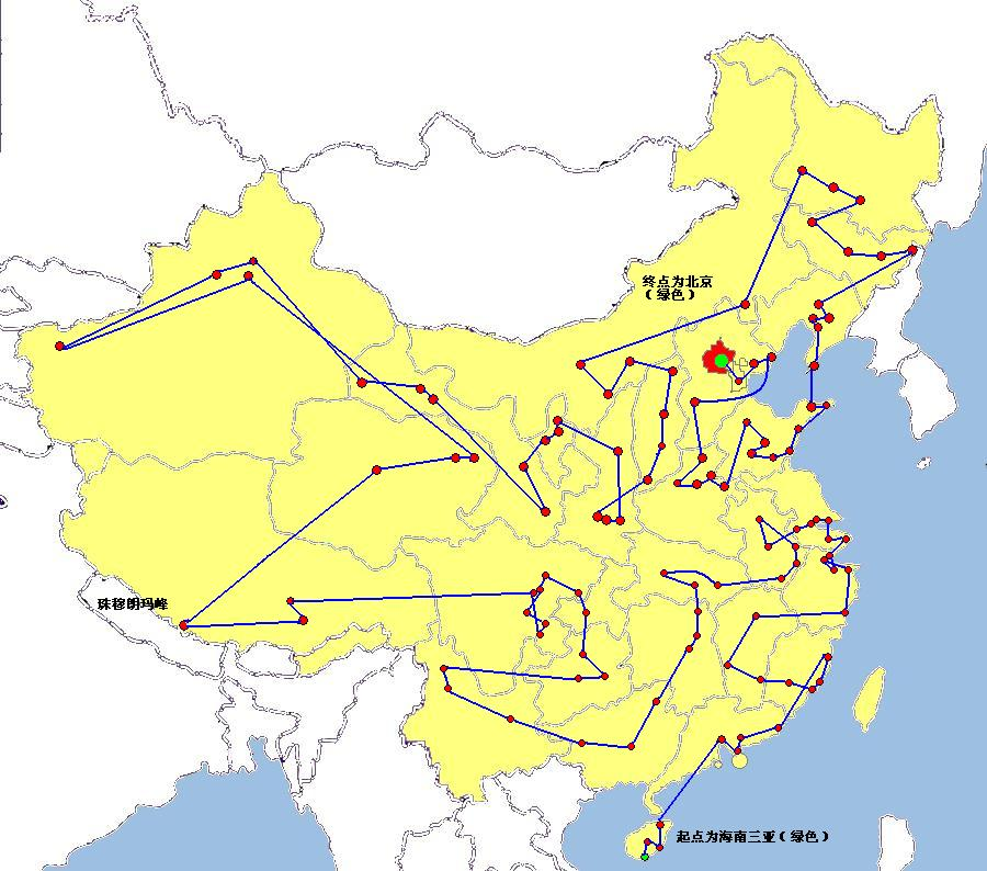 2008 Summer Olympics torch relay map